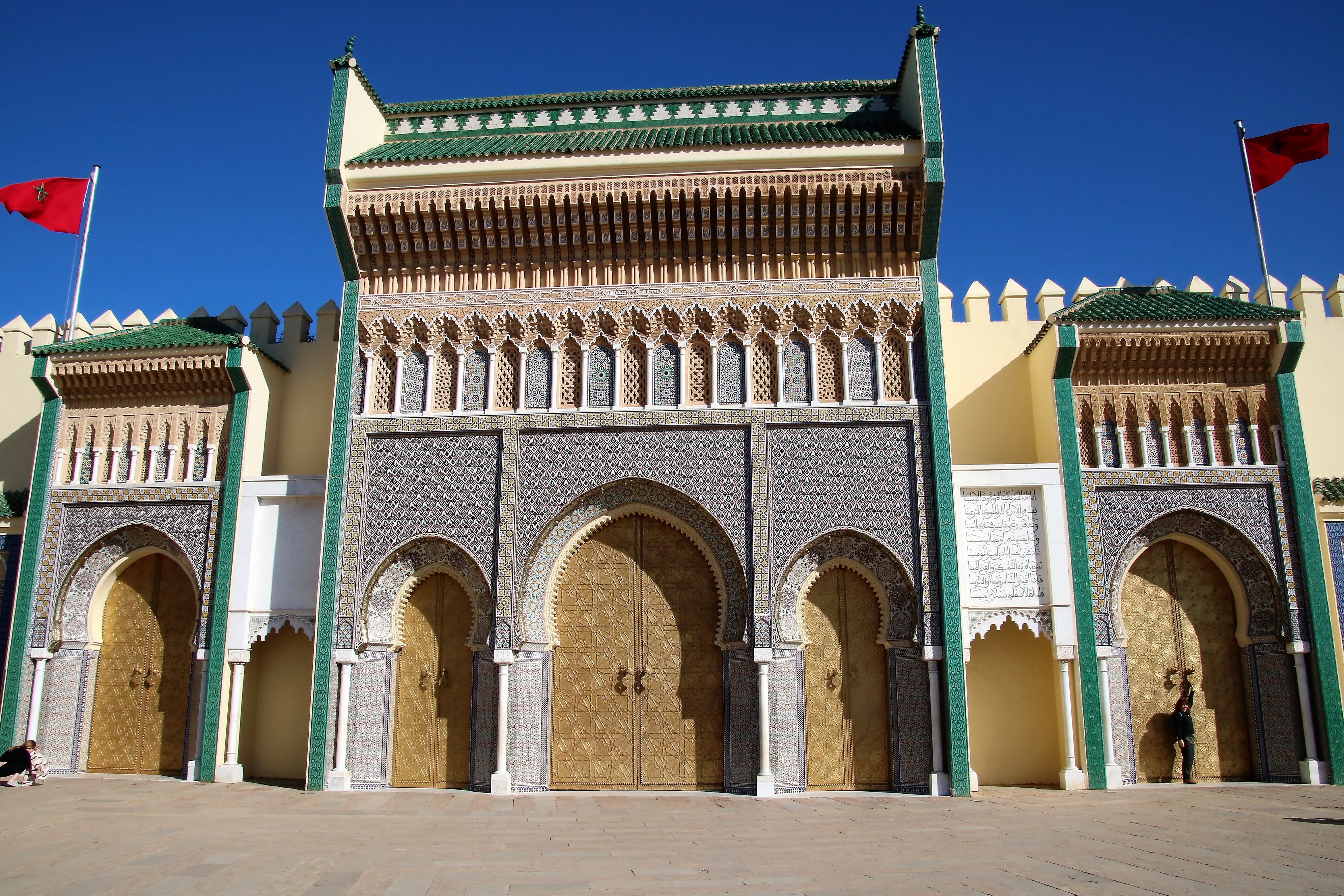 Visit in Fes December,27th 2019 to January 1st,2020